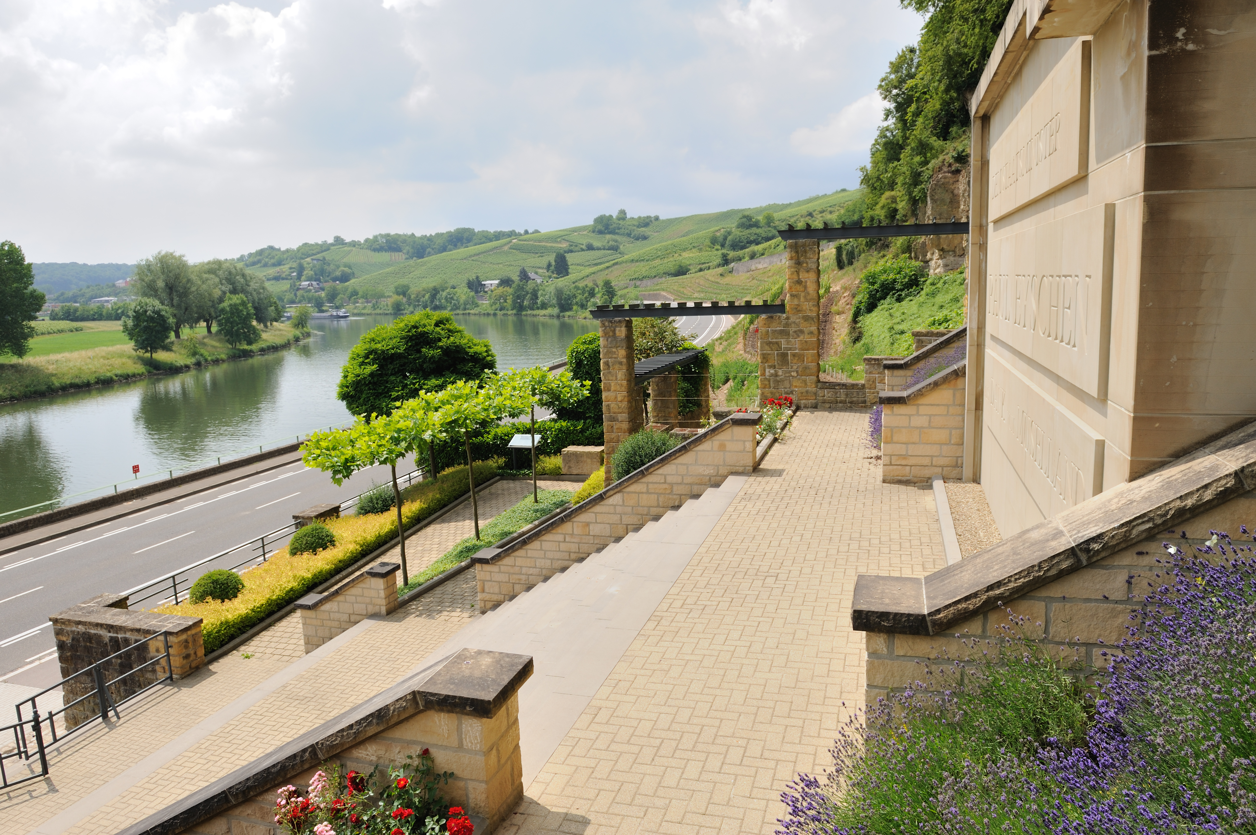 The Moselle river seen from the Paul Eyschen (1841-1915) monument at Stadtbredimus, Luxembourg